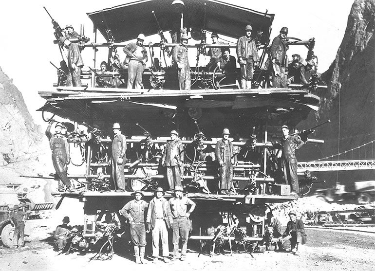 This piece of equipment, named a Jumbo Rig, was designed to speed up the Hoover Dam's tunnel drilling process. Built on the back of a 10-ton truck, 24 to 30 drills could be operated at once.